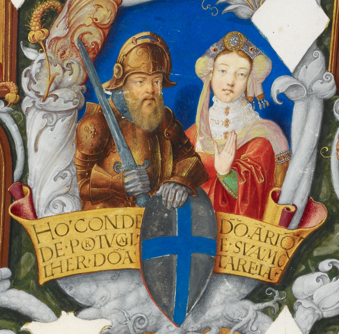 Henry of Burgundy, Count of Portugal (1066–1112) and his wife, Theresa of León (1080-1130), in a 16th-century miniature.